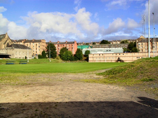 Football Practice. The practice pitches outside Hampden Park Stadium,at Mount Florida, Glasgow.